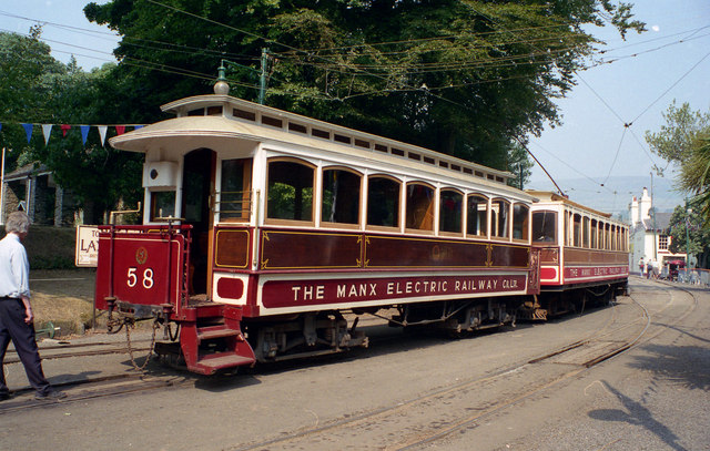 Enclosed trailer car on the Manx Electric Railway This car, No 58, and its sister No 57 are seldom seen in service as they are heavy and more current is consumed in hauling them. As a result of their restricted use, they are invery good condition. Apart from the Royal saloon No 59 and the newly-converted No 56, they are the only enclosed trailers on the railway. Seen here at Laxey.